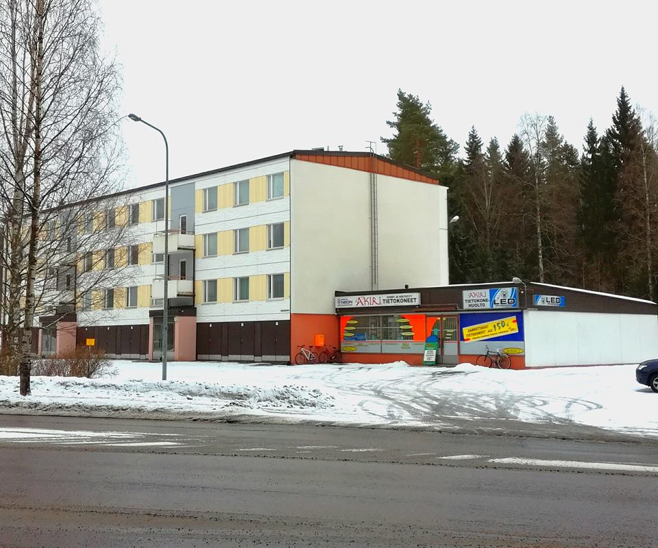 An apartment building in the Itäinen Kangasvuori area in Jyväskylä. The house was built in the late 1960s or early 70s.